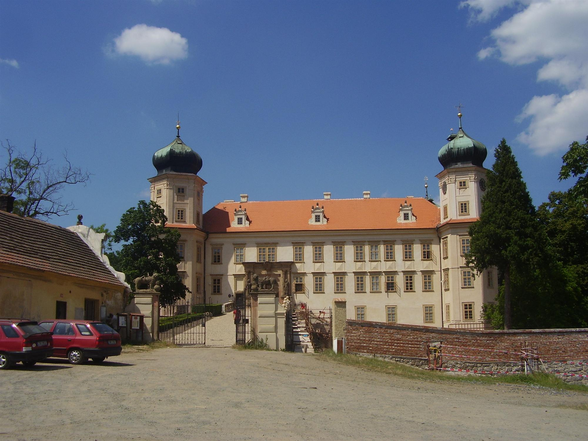 Castel in Mníšek pod Brdy from square